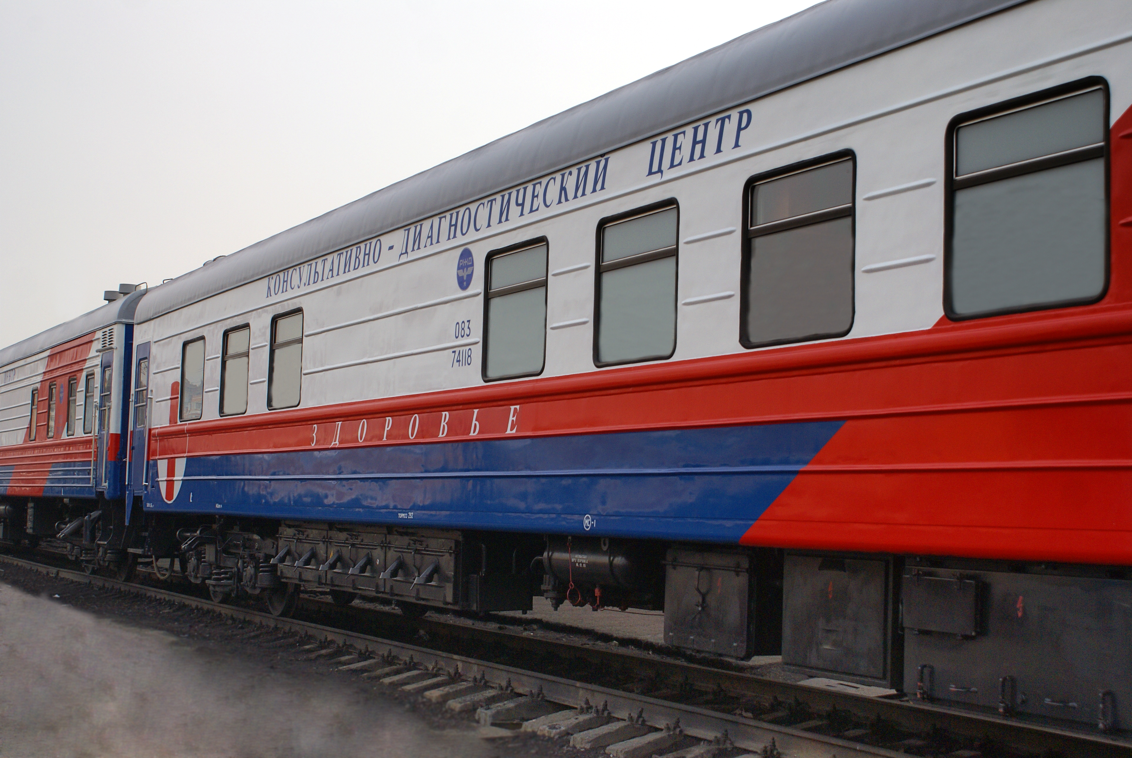 Hospital train at Novosibirsk railway station